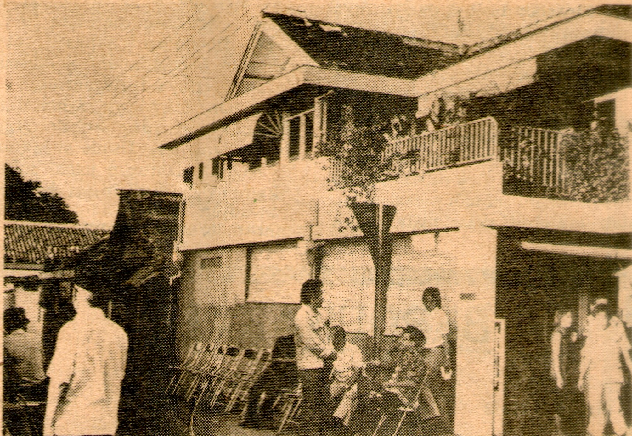 House of Rahardjo Prodjopradoto during the mourning time.